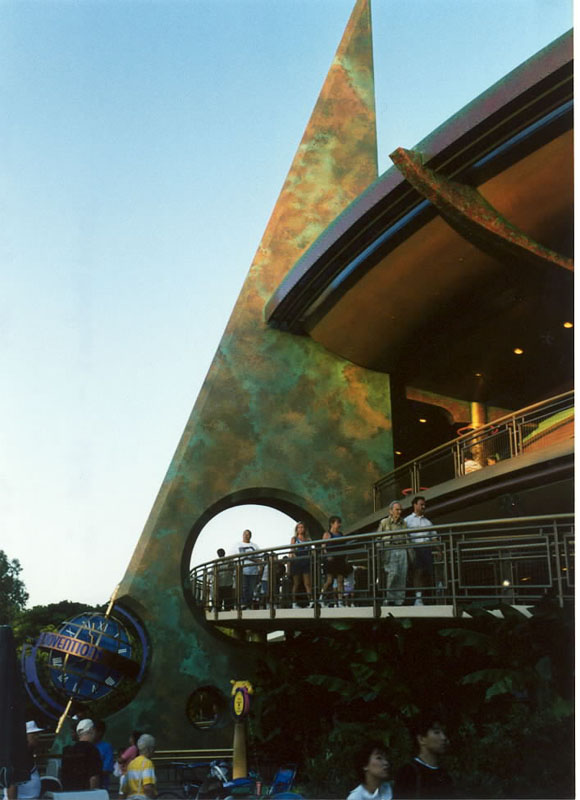 Innoventions 1998 entrance Disneyland Taken by Ellen Levy Finch (User:Elf)